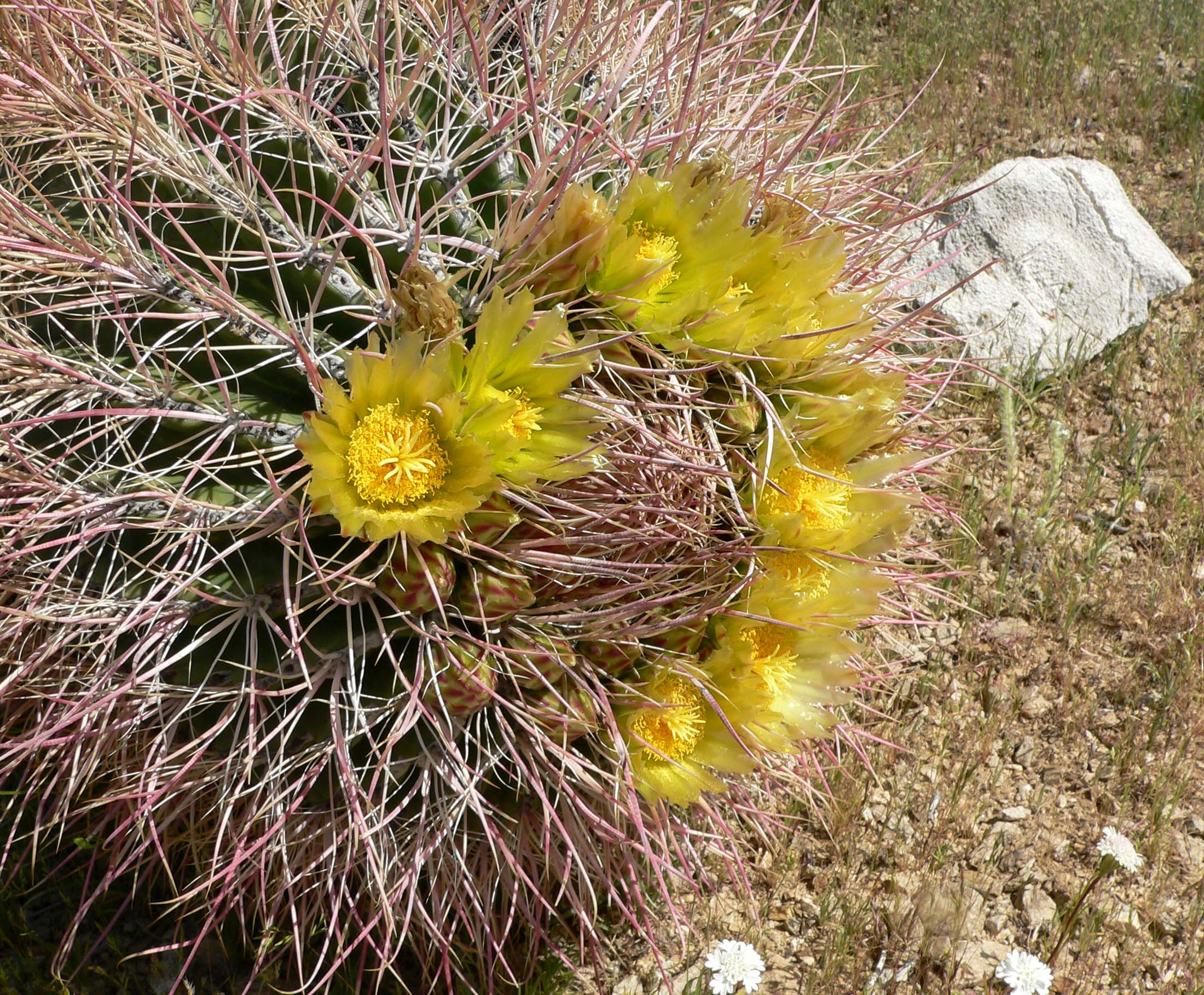 Photo of Ferocactus cylindraceus in Palm Canyon, California